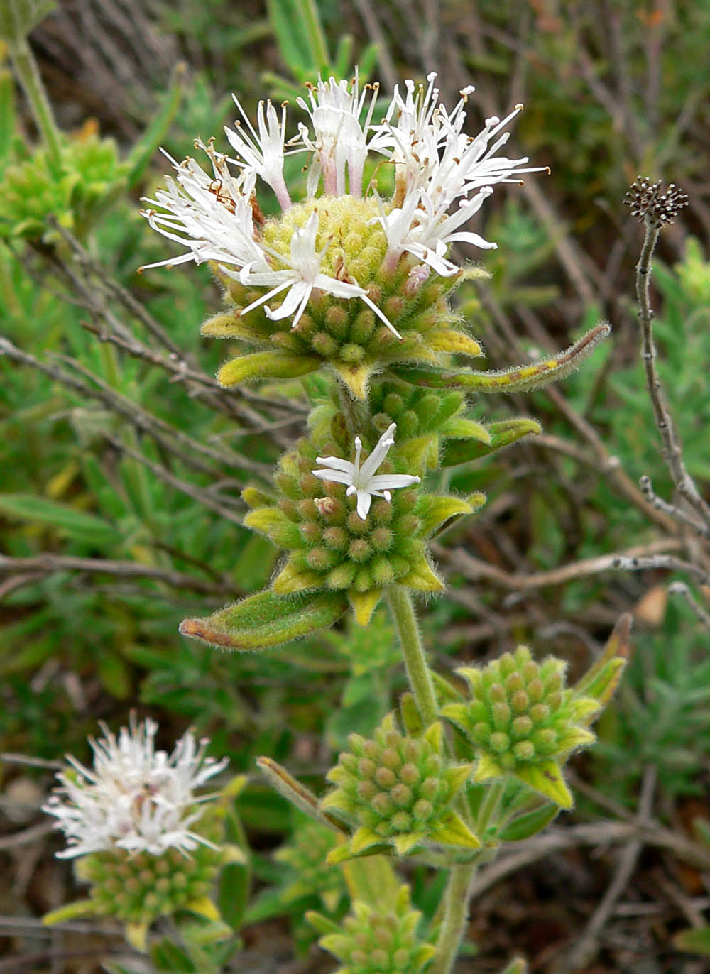 Monardella hypoleuca ssp. lanata — feltleaf monardella. Specimen at the Regional Parks Botanic Garden, Berkeley Hills. Endemic to southern California chaparral and woodlands habitats.